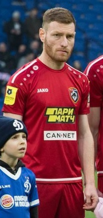 Guram Tetrashvili with FC Tambov before the game against FC Dynamo Moscow.